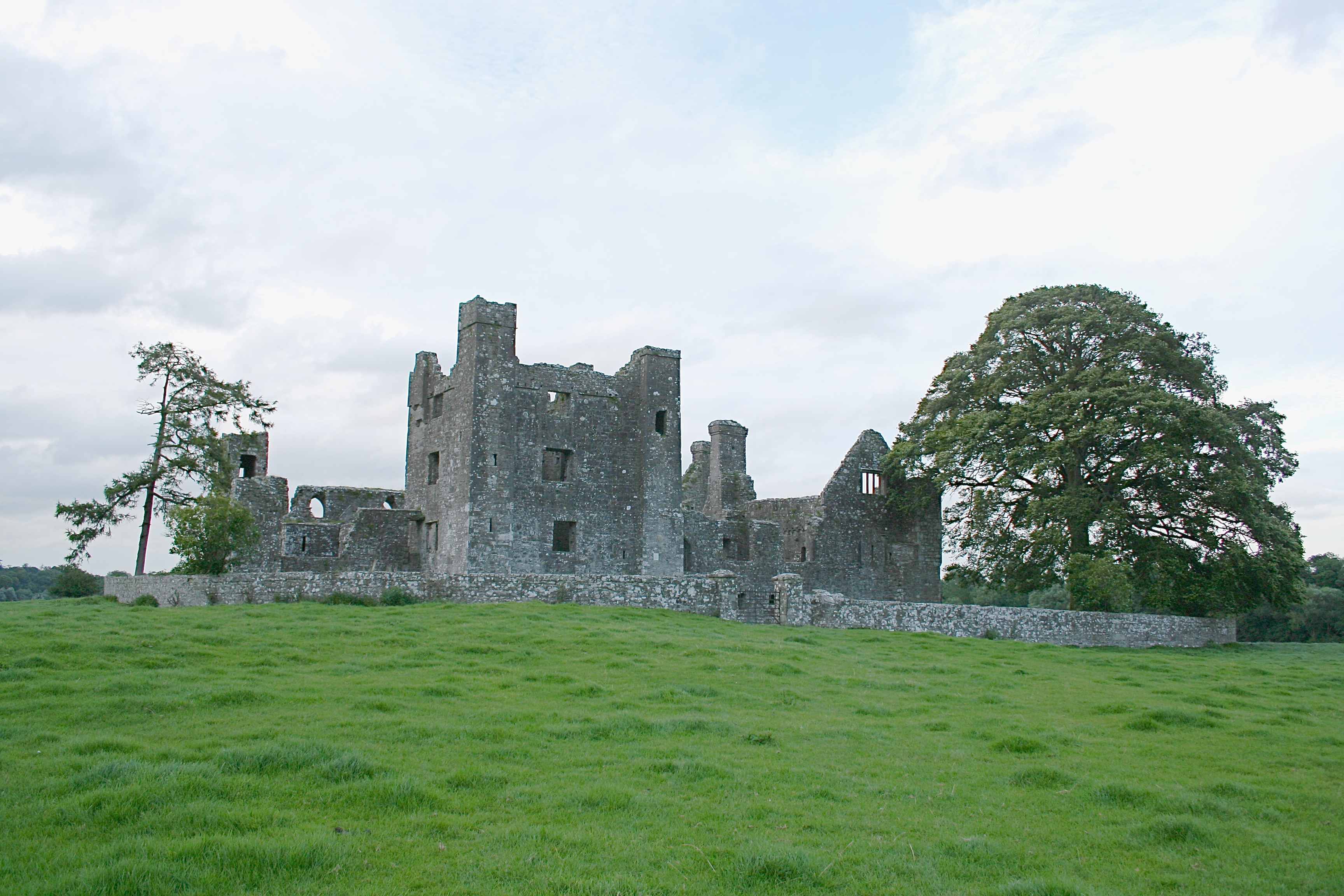 Monasterio de BectiveBective Abbey